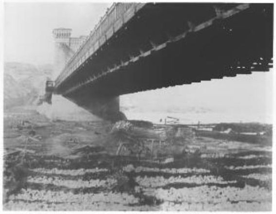 Dnieper Bridge by John Cooke Bourne, 1853